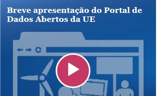 Screenshot from EUODP